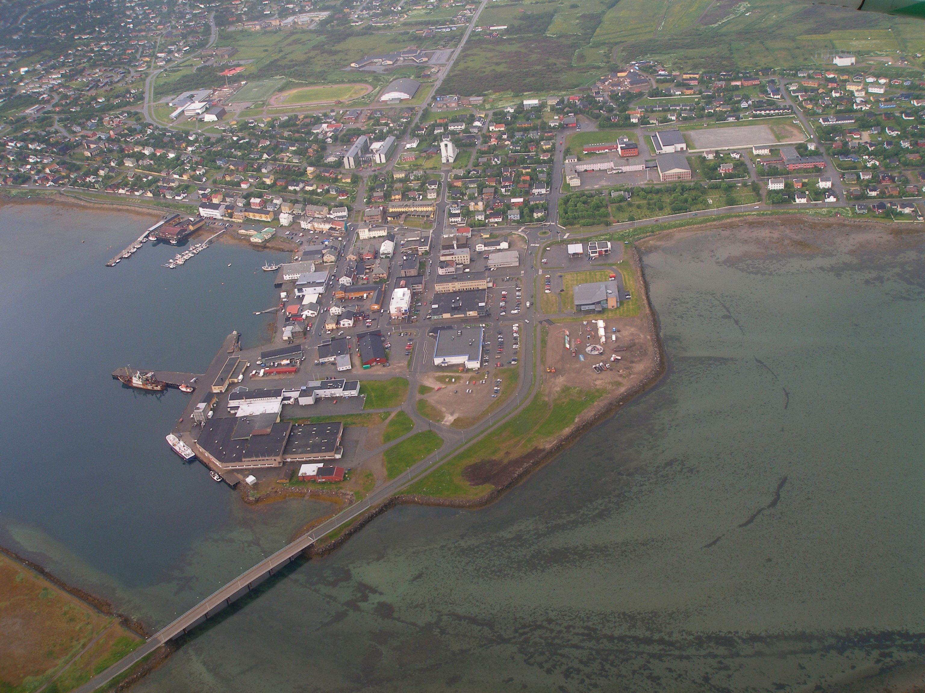 Aerial photograph of Vadsø, Norway.